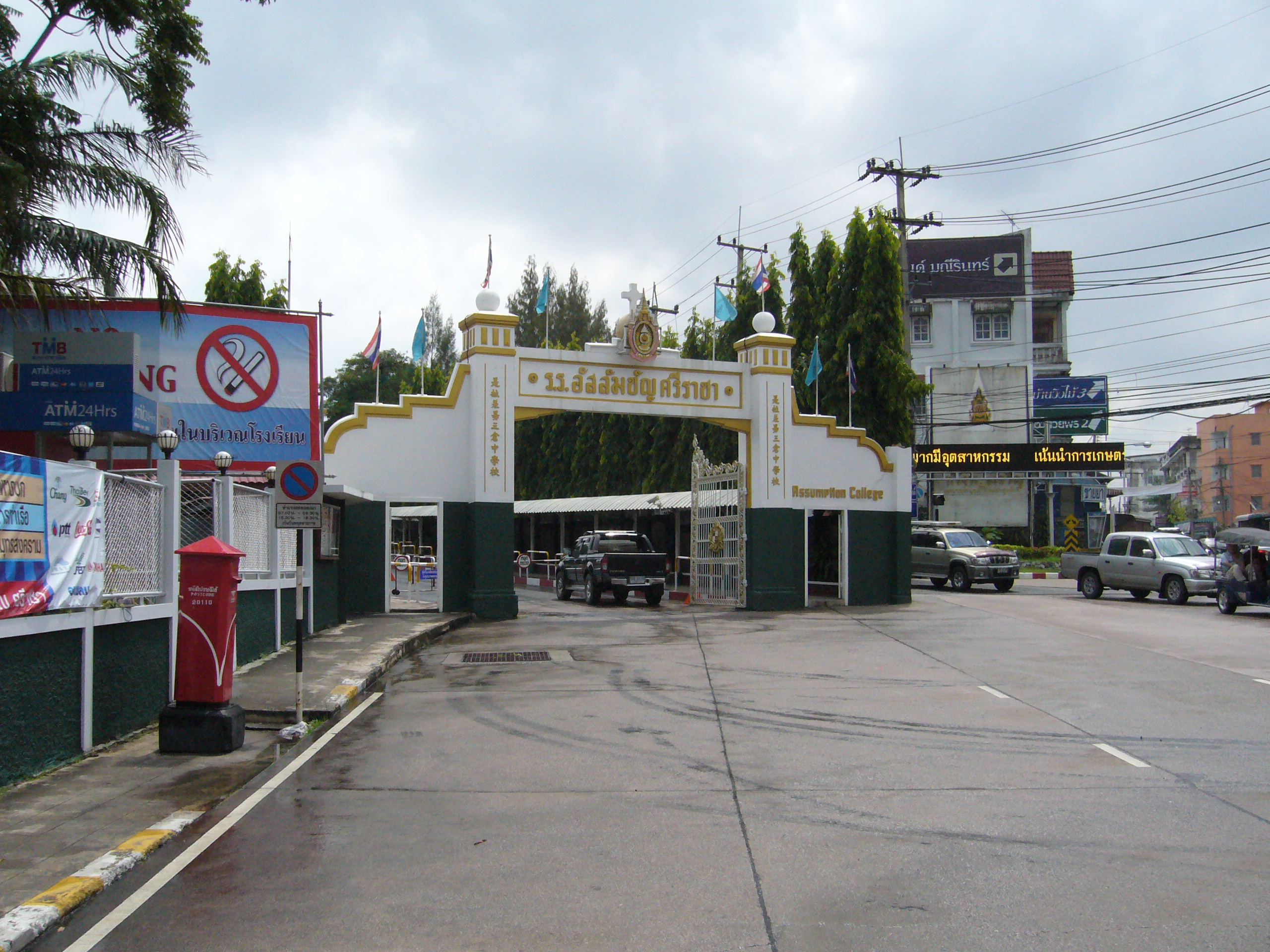 Main Entrance of the Assupmtion School Si Racha